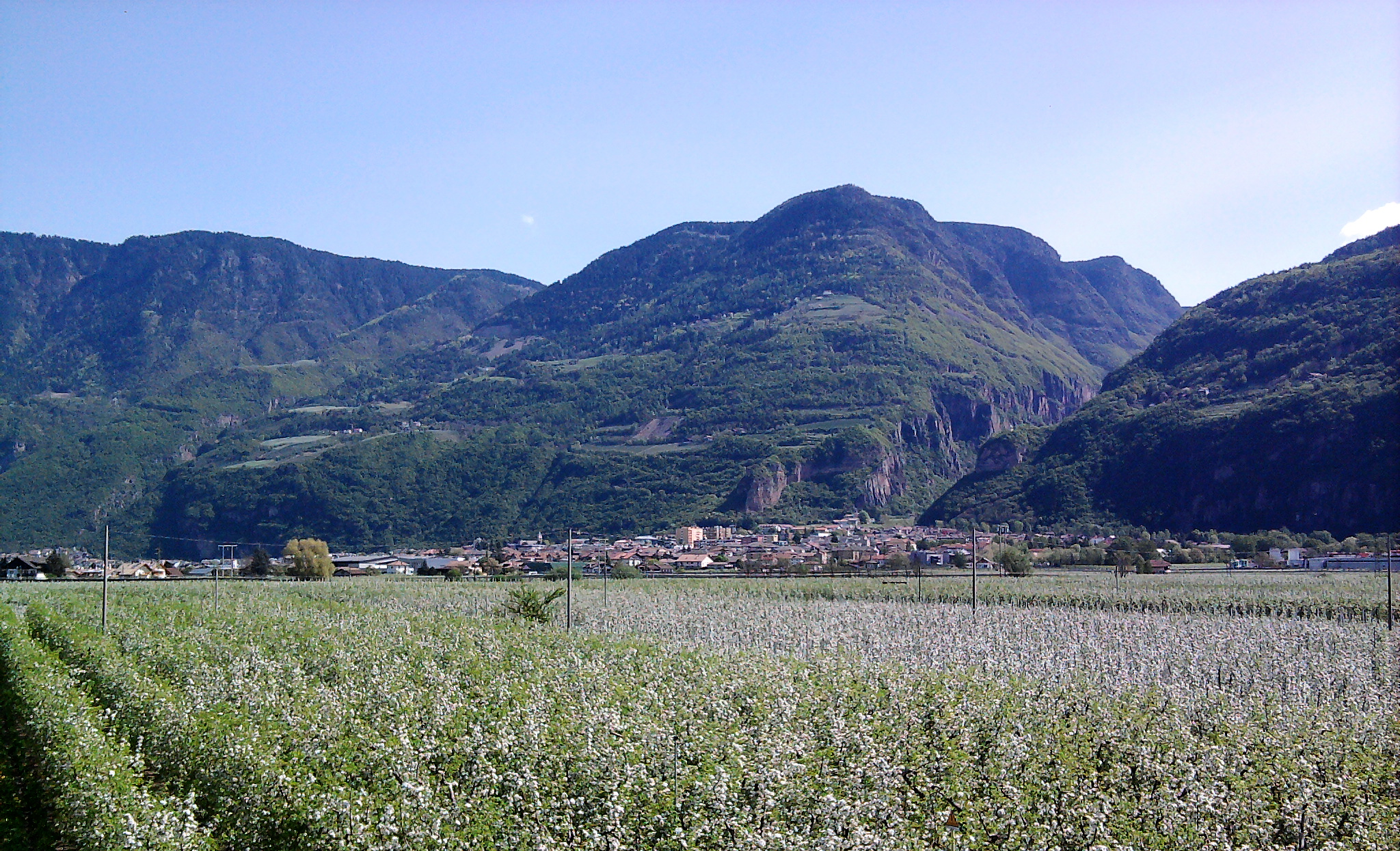 View of the town of Laives and the apple trees near Bronzolo and Vadena, South Tyrol.